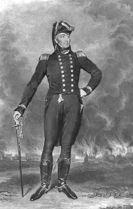 George Cockburn. Early 19th century portrait depicting Washington, D.C in flames, behind him.